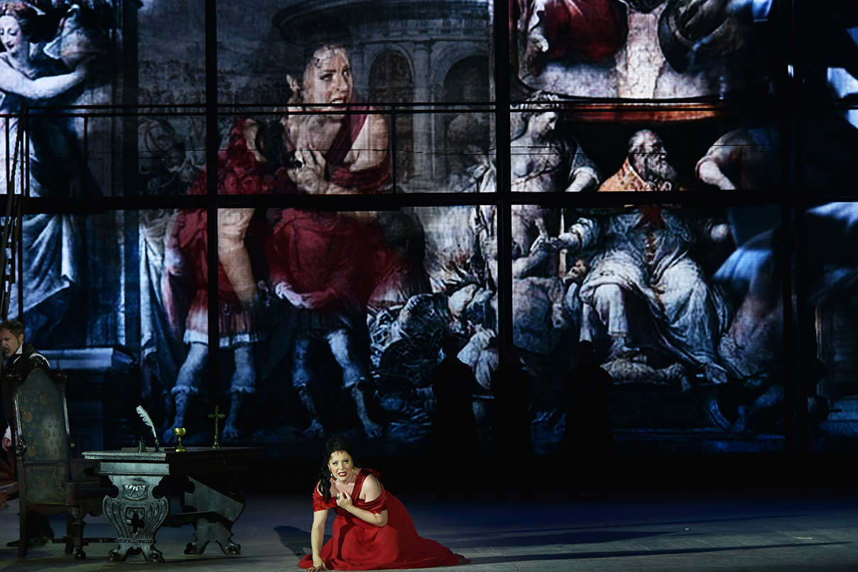 Tosca, Sankt Margarethen, 2015